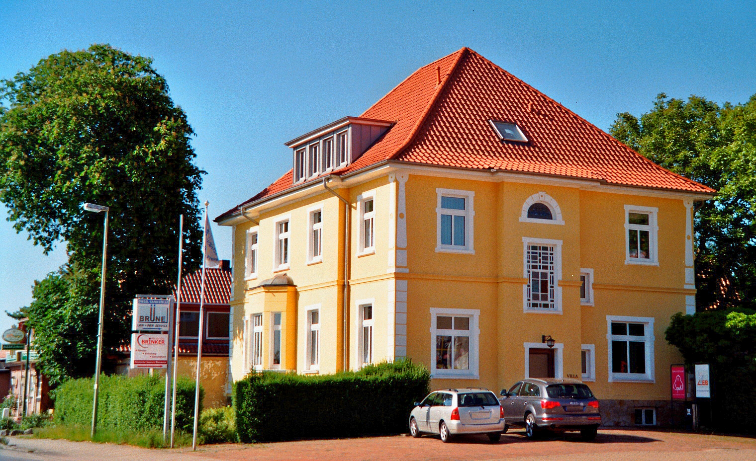 Villa Brüne in Freren, Landkreis Emsland, Lower Saxony, Germany.